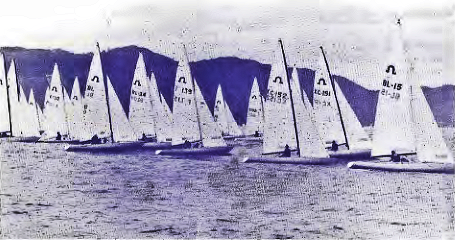 BL 15, Gastão Brun, Vincente Brun and Roberto Martins World Champions Soling 1978